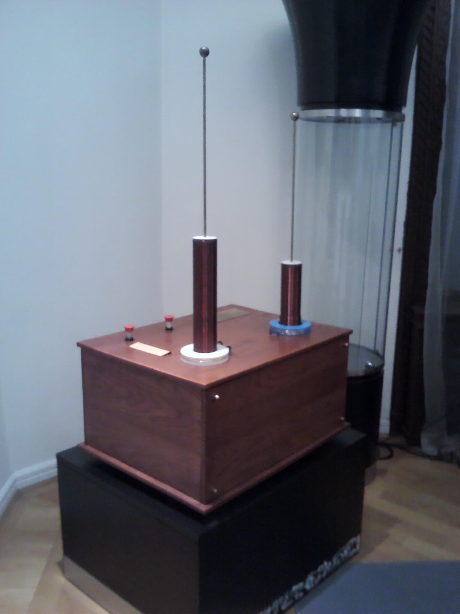 The remote-control unit used for the first remotely controlled boat, invented by Nikola Tesla.